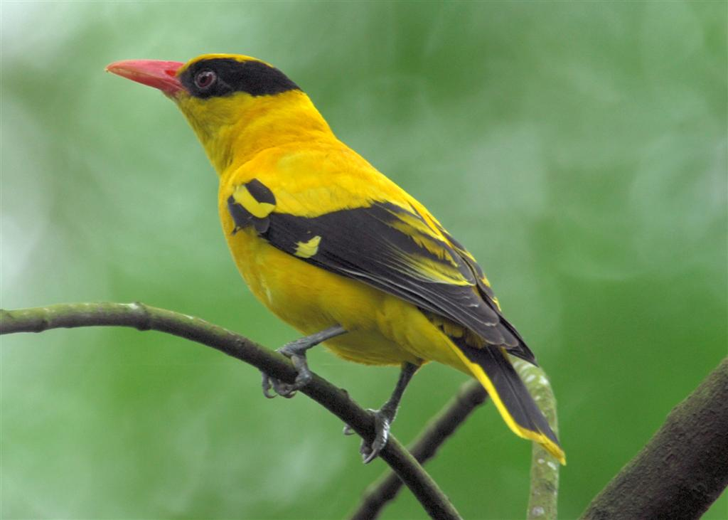 Black-naped Oriole, Oriolus chinensis, Bukit Timah Nature Reserve, Singapore